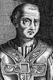 A lithography of Pope Theodore II, made before 1923